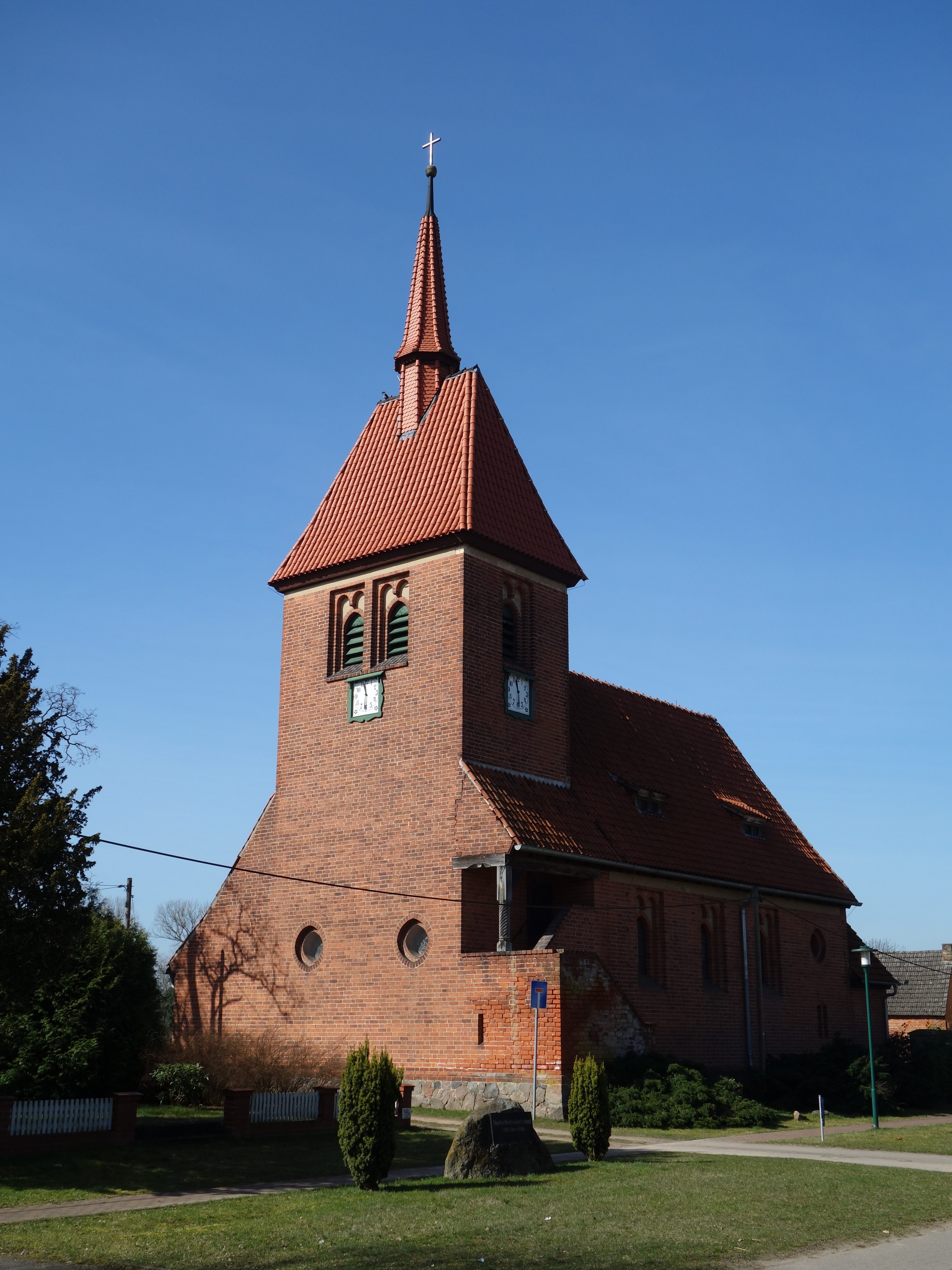 North-eastern view of the church in Kerzlin , Temnitztal municipality , Ostprignitz-Ruppin district, Brandenburg state, Germany.